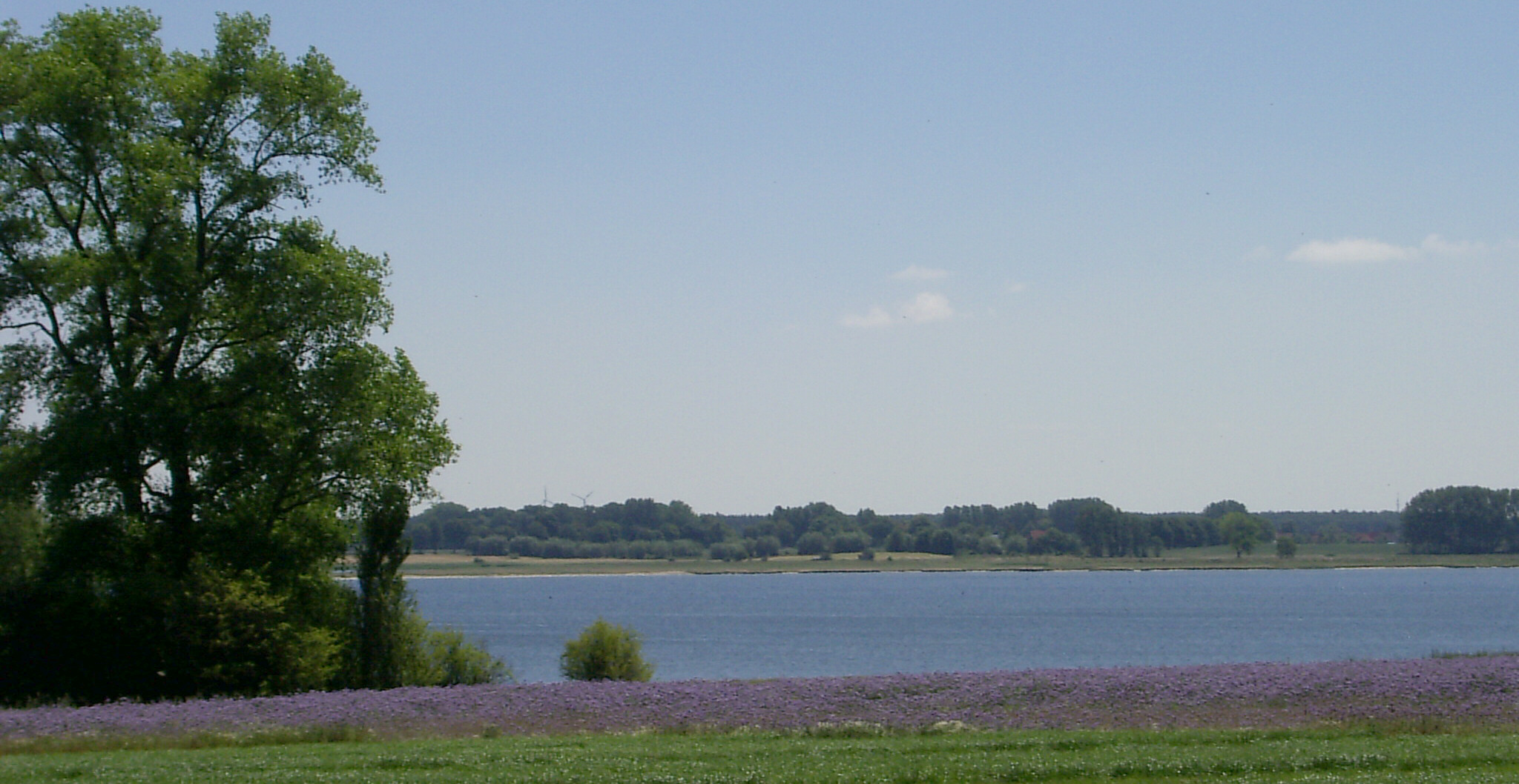 Breitling gulf between mainland and Poel, Germany